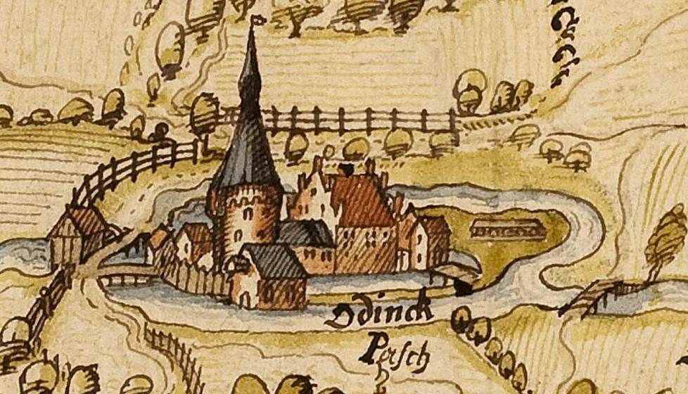 Part of bigger map "The Area at East of Winterswijk"